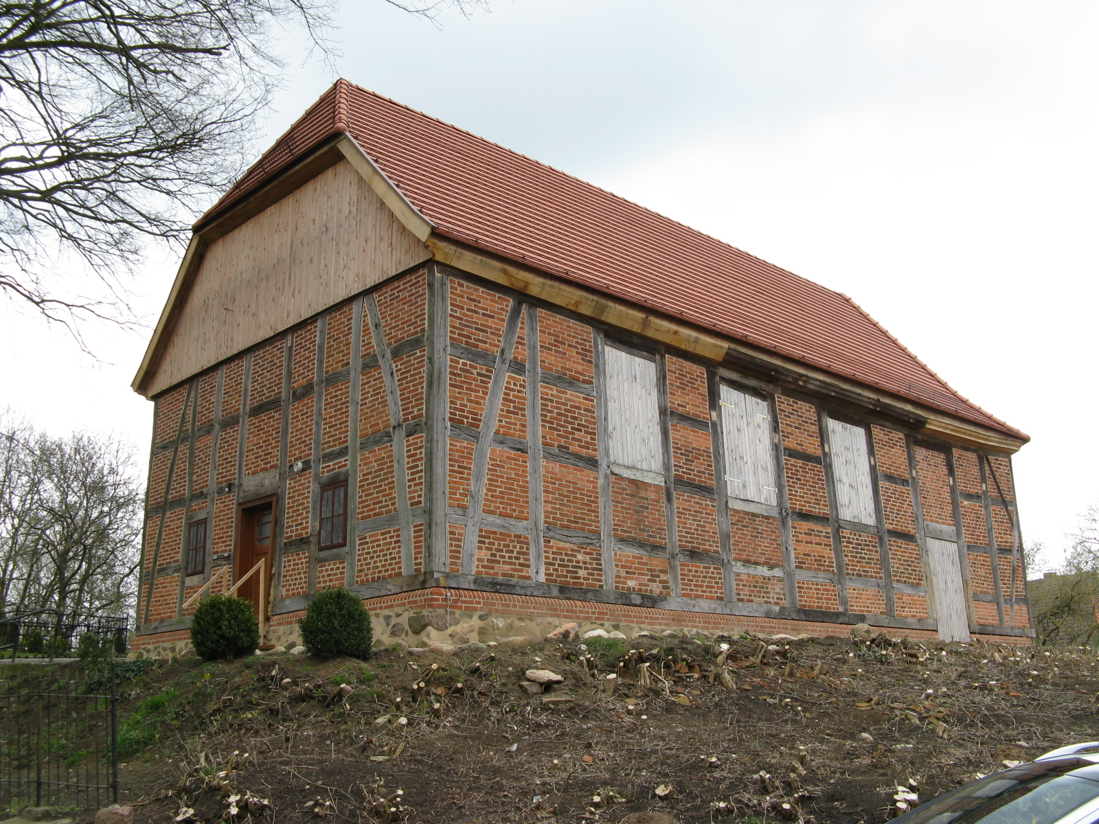 Church in Lüblow, Germany